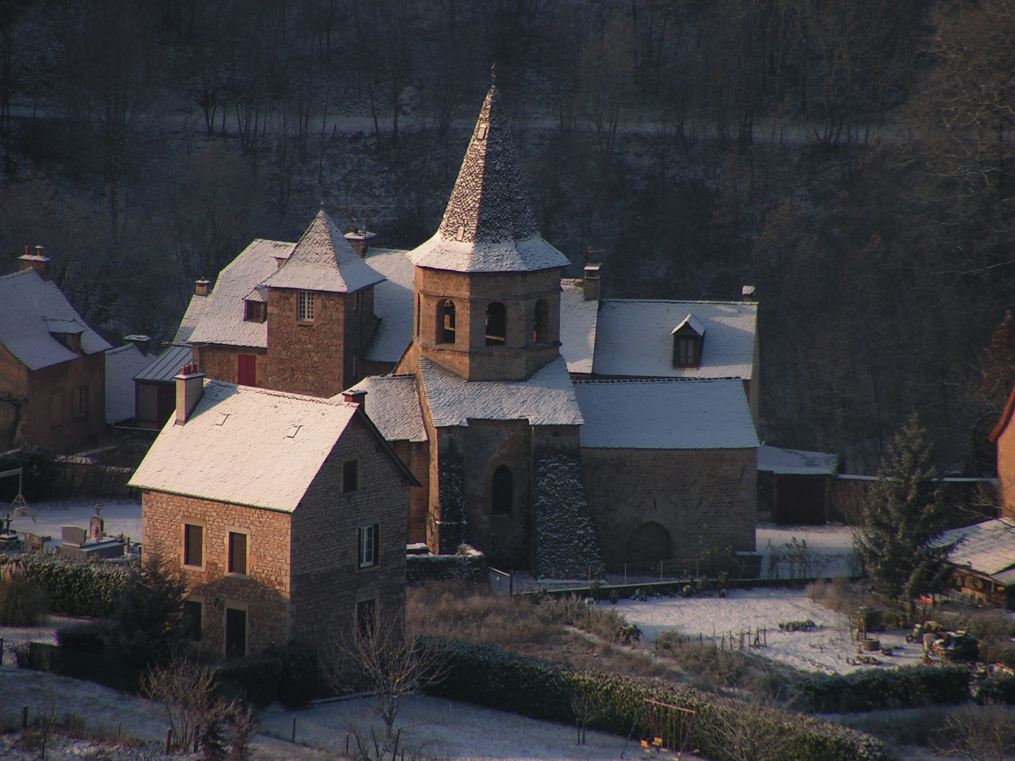 Church "Saint-Paul" of Salles-la-Source (Aveyron, France), winter.